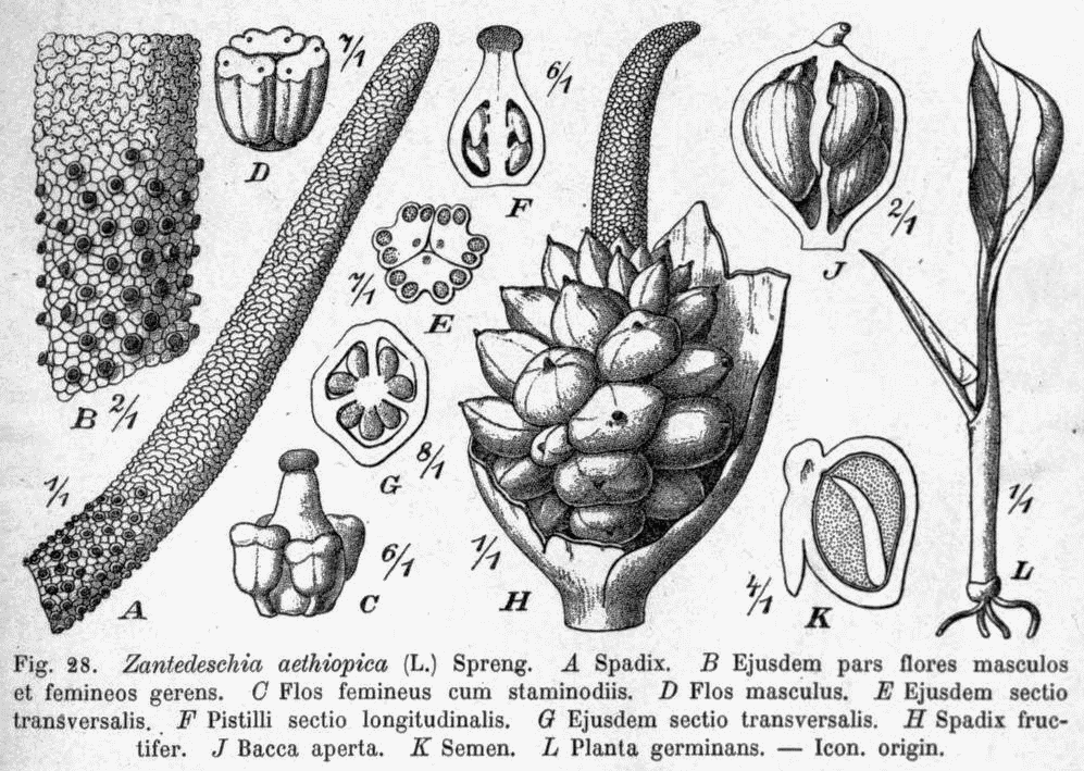 Zantedeschia aethiopica morphology